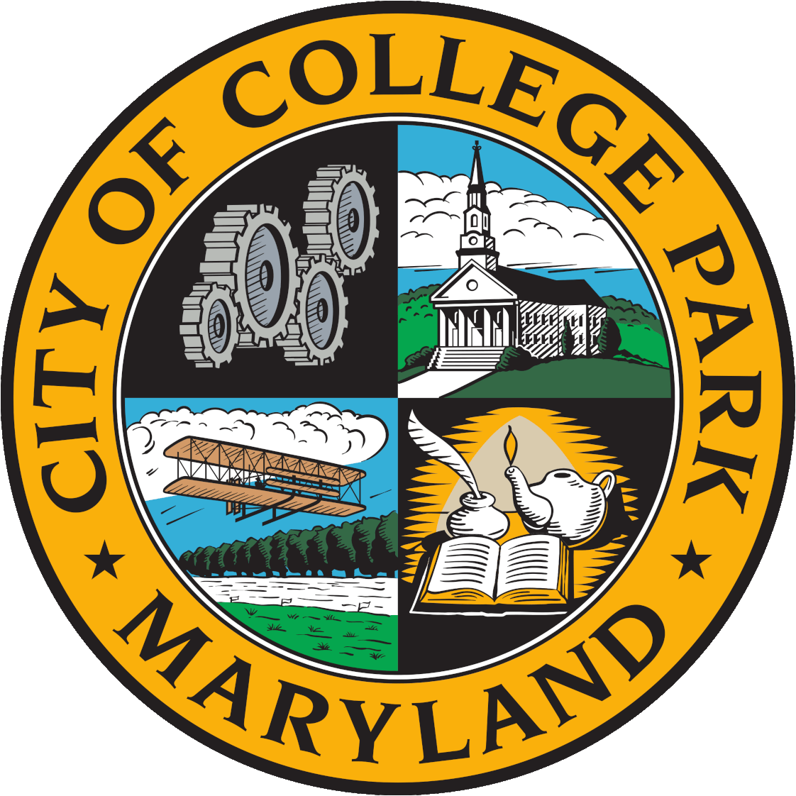 The official city seal of College Park, Maryland. The seal was designed by Mel Havenner and adopted by the City of College Park on April 10, 1962. The seal is a circle divided into quarters. Each section represents an important aspect of the City of College Park. The chapel represents religion. The books represent education (College Park is the home to the flagship campus of the University of Maryland). The airplane and landing field represent the historic College Park airport. The wheels represent industry.